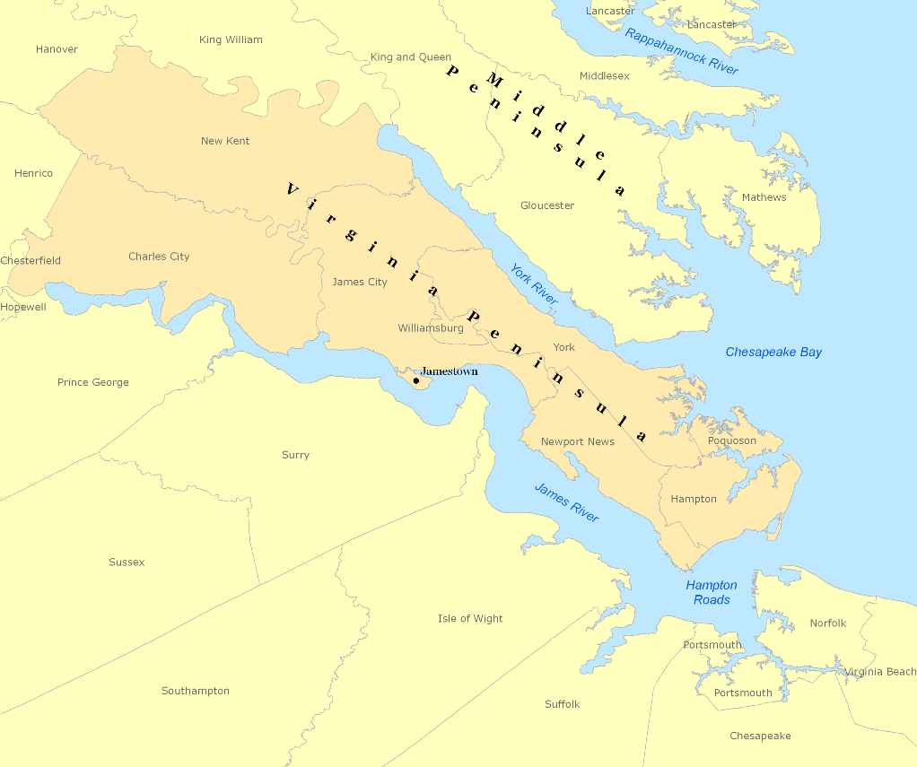 Map of the Virginia Peninsula created with Arcview